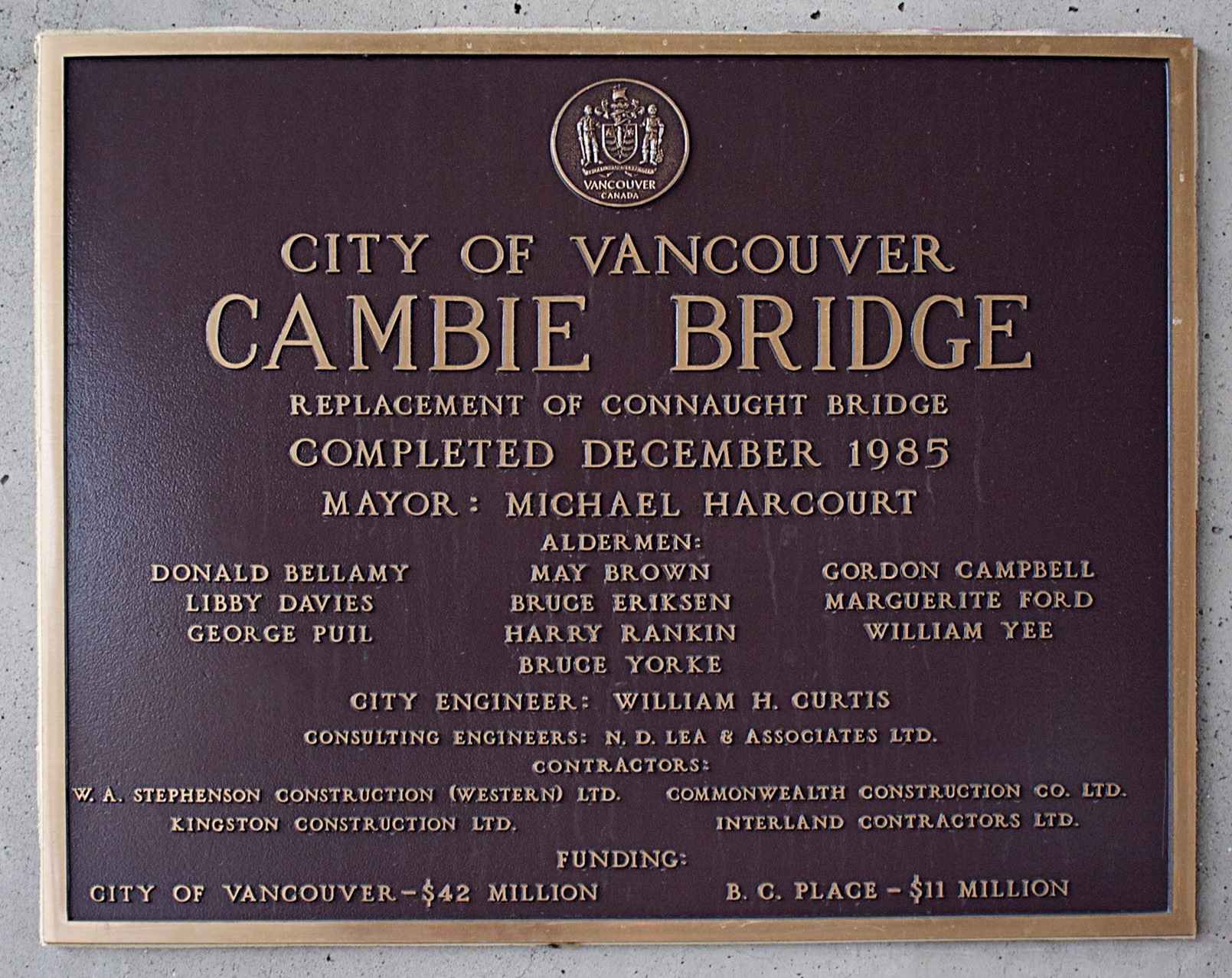 Plaque under the Cambie Bridge in Vancouver, BC, Canada. Plaque is located at the south end of the bridge, along the West 2nd Avenue sidewalk.